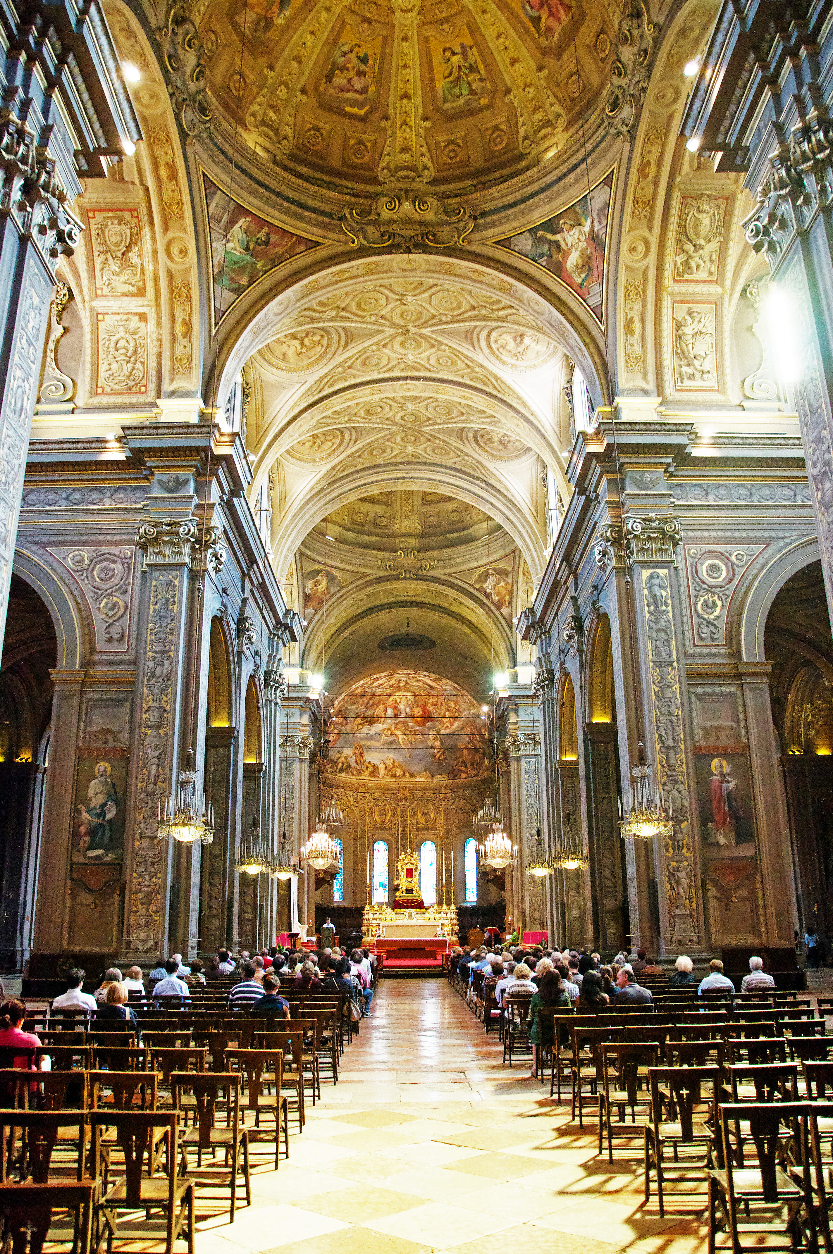 Central nave in Ferrara San Giorgio Cathedral